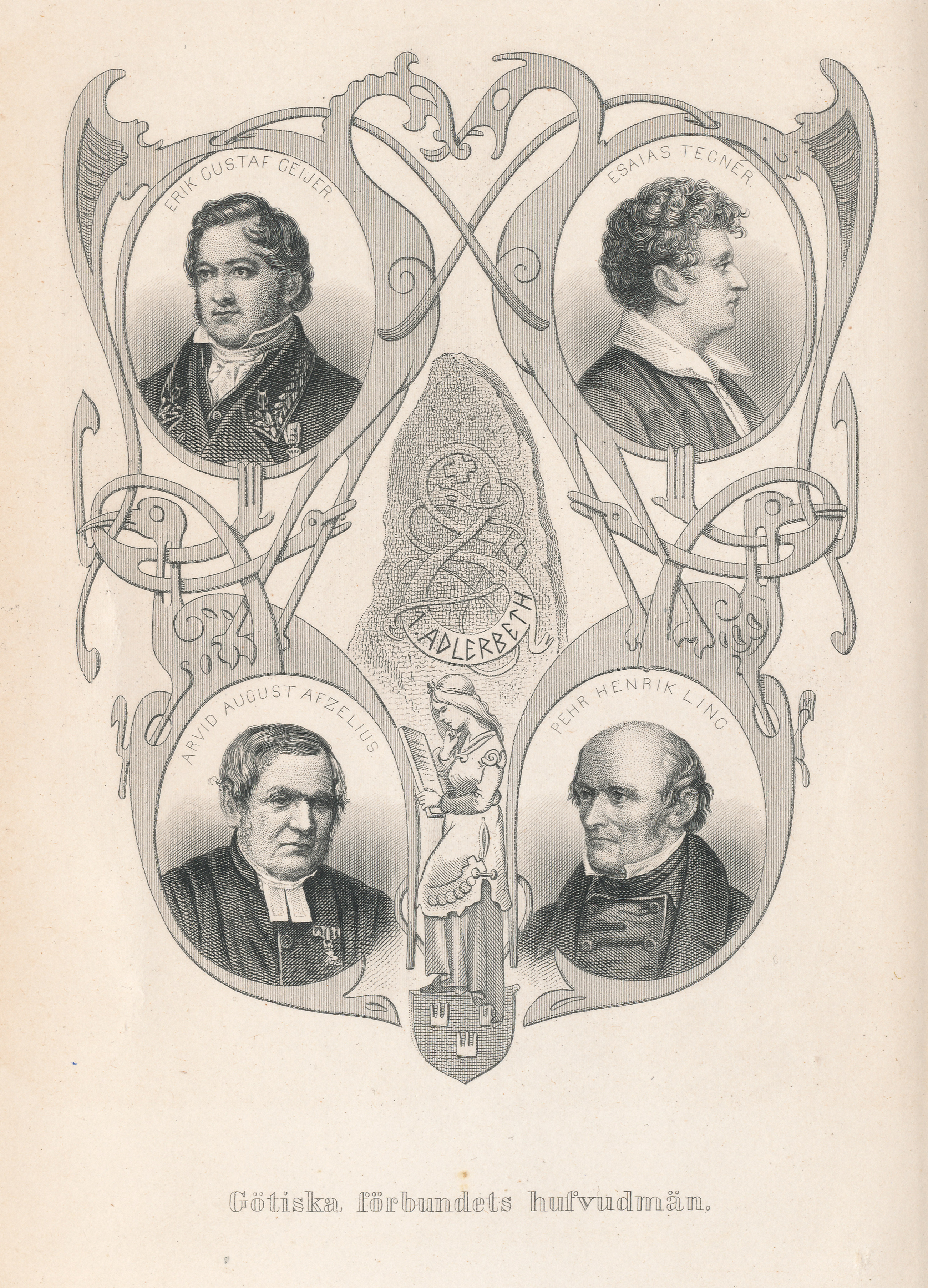 Illustration from Rudolf Hjärnes "Götiska Förbundet och dess hufvudmän", Albert Bonniers förlag 1878.